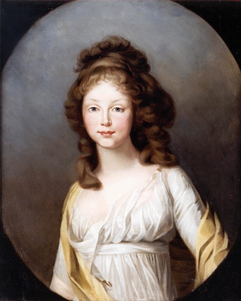 A portrait of Louise of Mecklenburg-Strelitz, Queen of Prussia, attributed to Johann Friedrich August Tischbein (actually it's probably a copy after Tischbein by the painting kept in Huis Doorn)